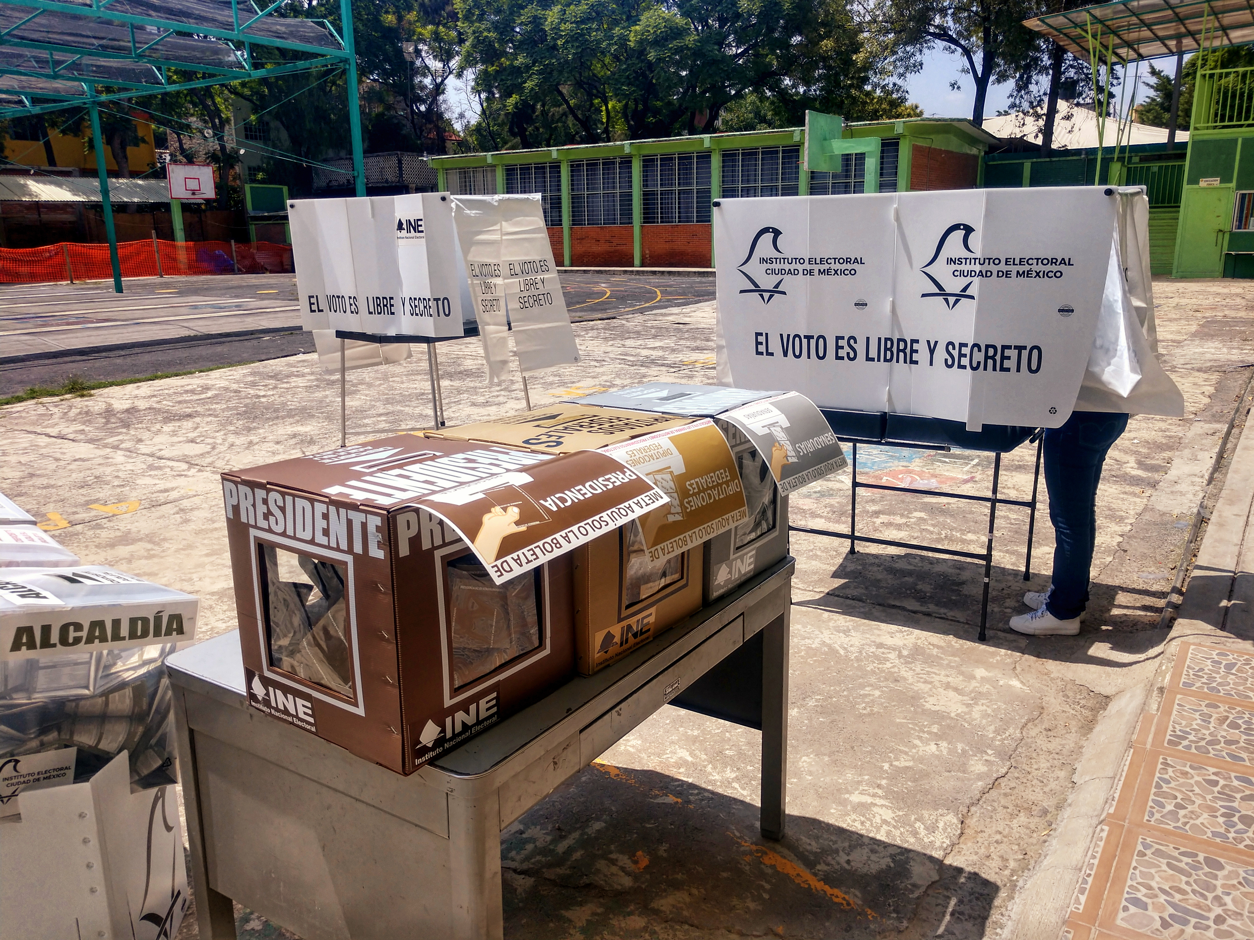 People voting in the Mexico General Election, July 1st, 2018. Mexico City, Mexico.